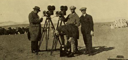 Cinematographer Robert Kurrle on location in the Sahara, 1924 Other for an explanation of the copyright for information regarding public domain